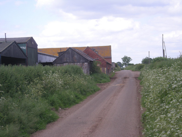 Roman Road past Green Farm